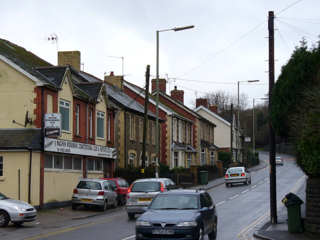 Clubland, Machen Machen Workmen's Constitutional Club is a local village landmark on the road to Caerphilly.